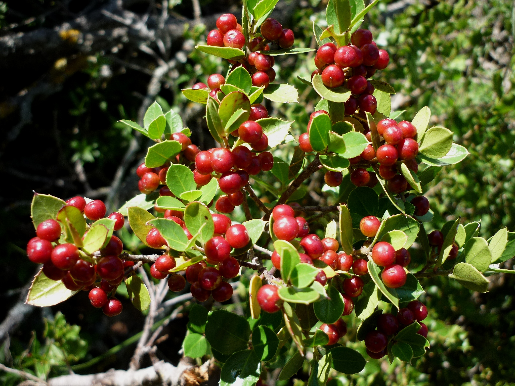 Rhamnus alaternus. In Torà (Segarra - Catalunya). To 680 m. altitude